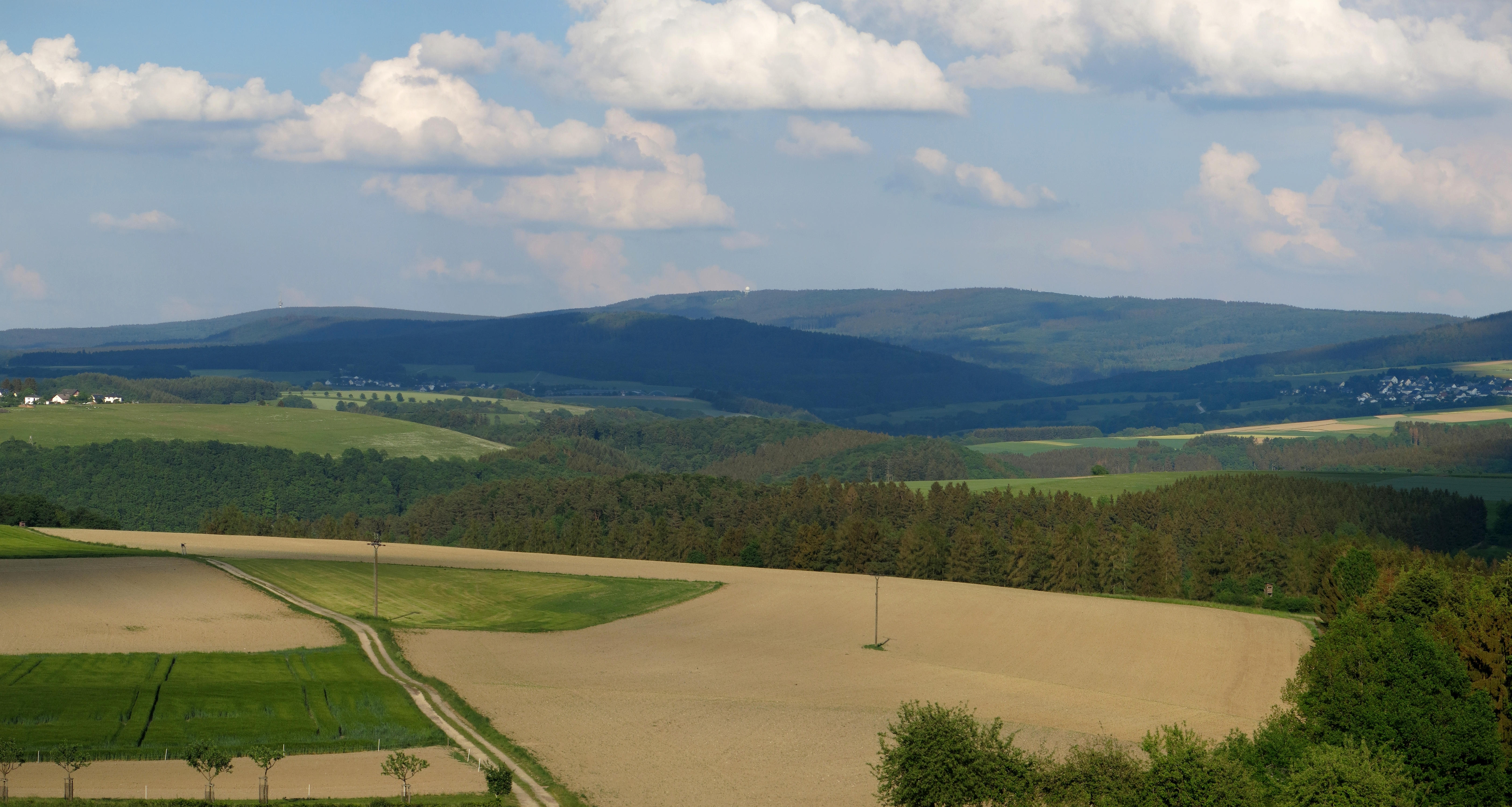 The Erbeskopf in the Hunsrück seen from West near Beuren